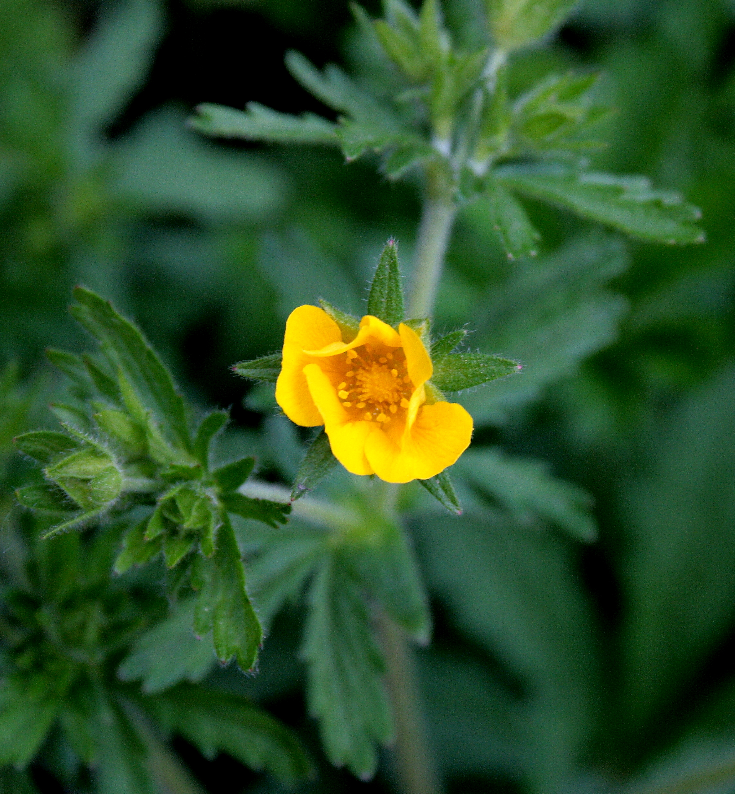 Ísland, Akureyri Botanical Gardens: Hohes_Fingerkraut_(Potentilla_recta)